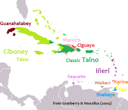 Pre-Colombian languages of the Antilles per Granberry & Vescelius (2004)